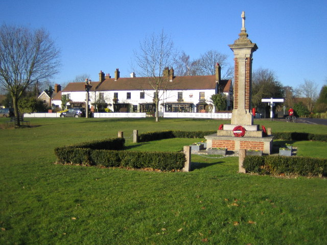 Chipperfield: War Memorial & The Two Brewers. Viewed looking westwards across Chipperfield Common, The Two Brewers has its own website here The village sign on the common is just visible to the left.